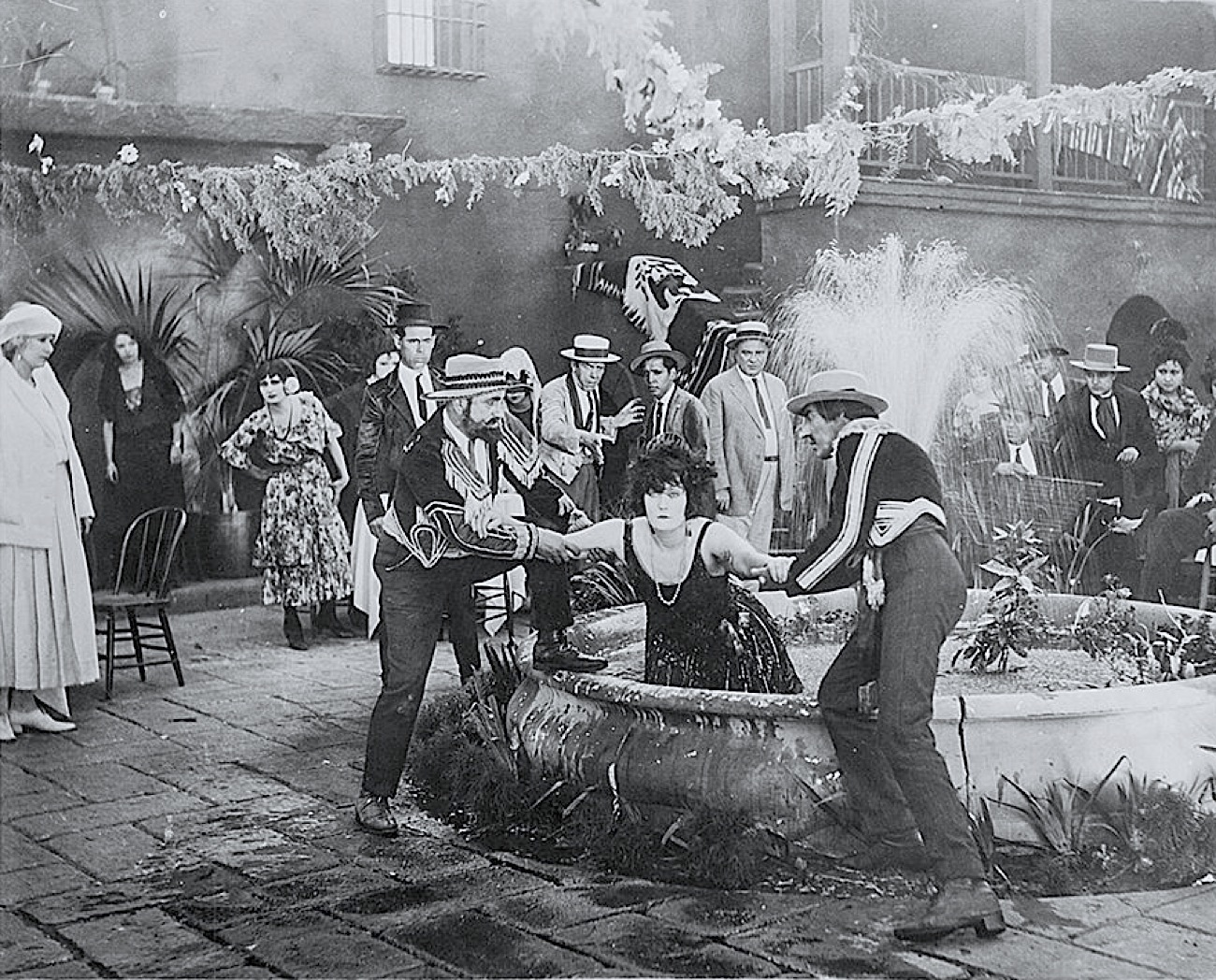 Mud and Sand is a silent film starring Stan Laurel, that was filmed in 1922. This is a publicity photo for the film.